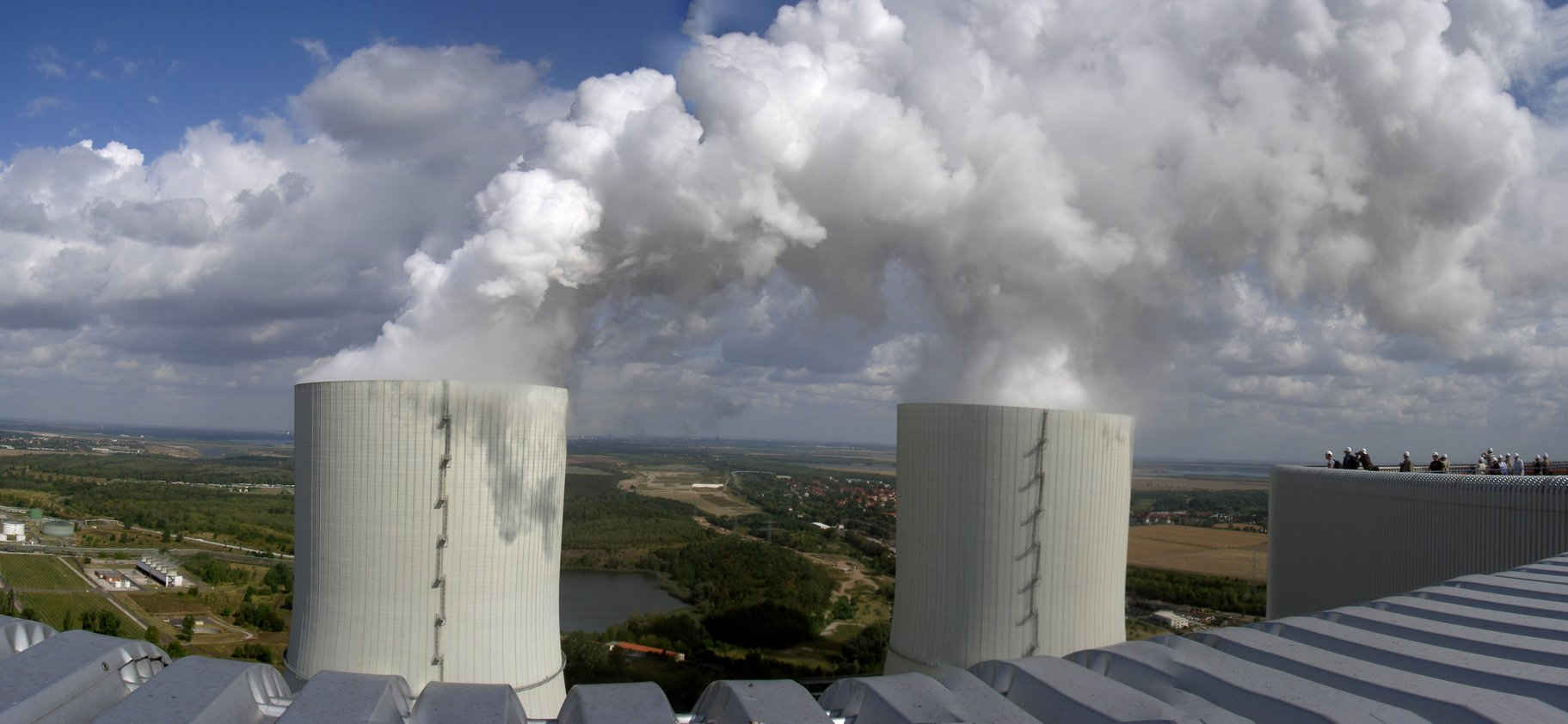 Powerplant Lippendorf near Leipzig, Germany - View from the rooftop in the direction of Leipzig (between the cooling towers you can see (if your eyes are very good) the Völkerschlachtdenkmal)